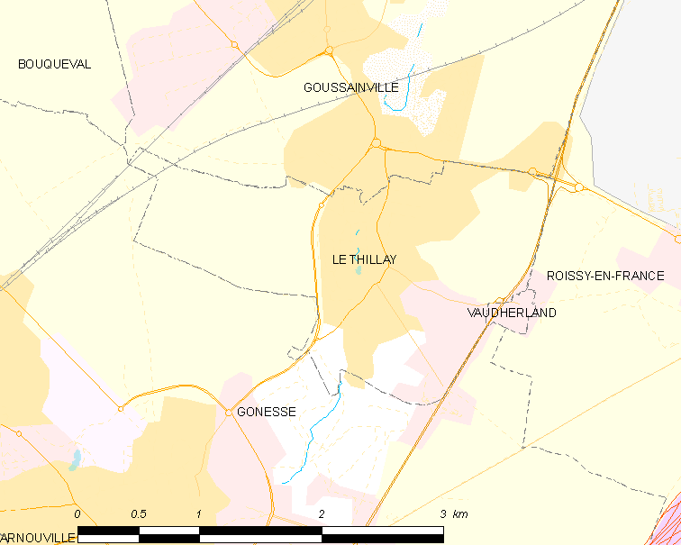 Map of French municipality Le Thillay